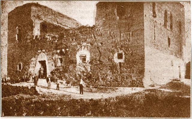 Palacio de Galiana is a palace in Toledo, Spain, on the borders of the Tagus River